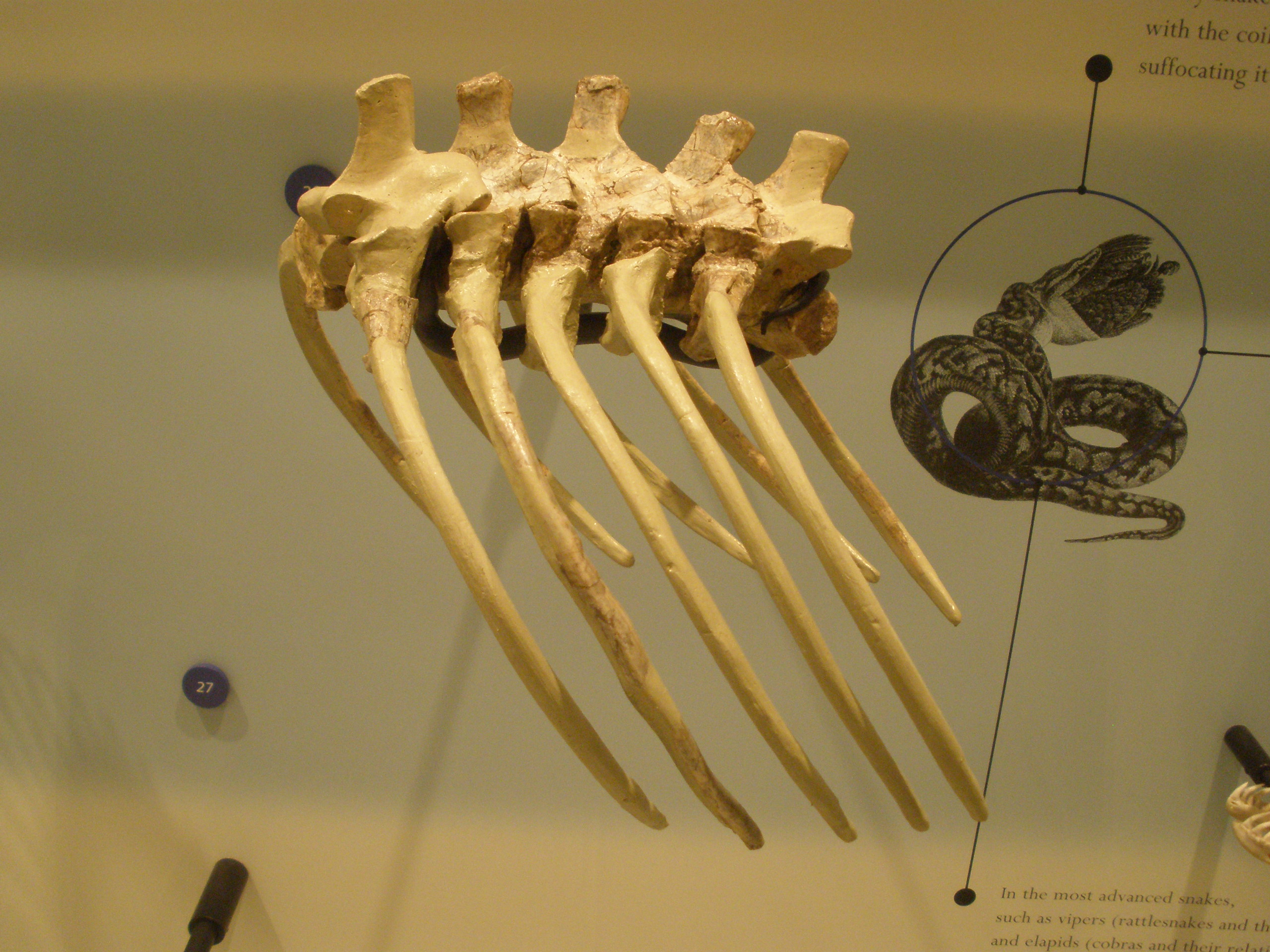 Vertebrae of Madtsoia bai, a fossil snake